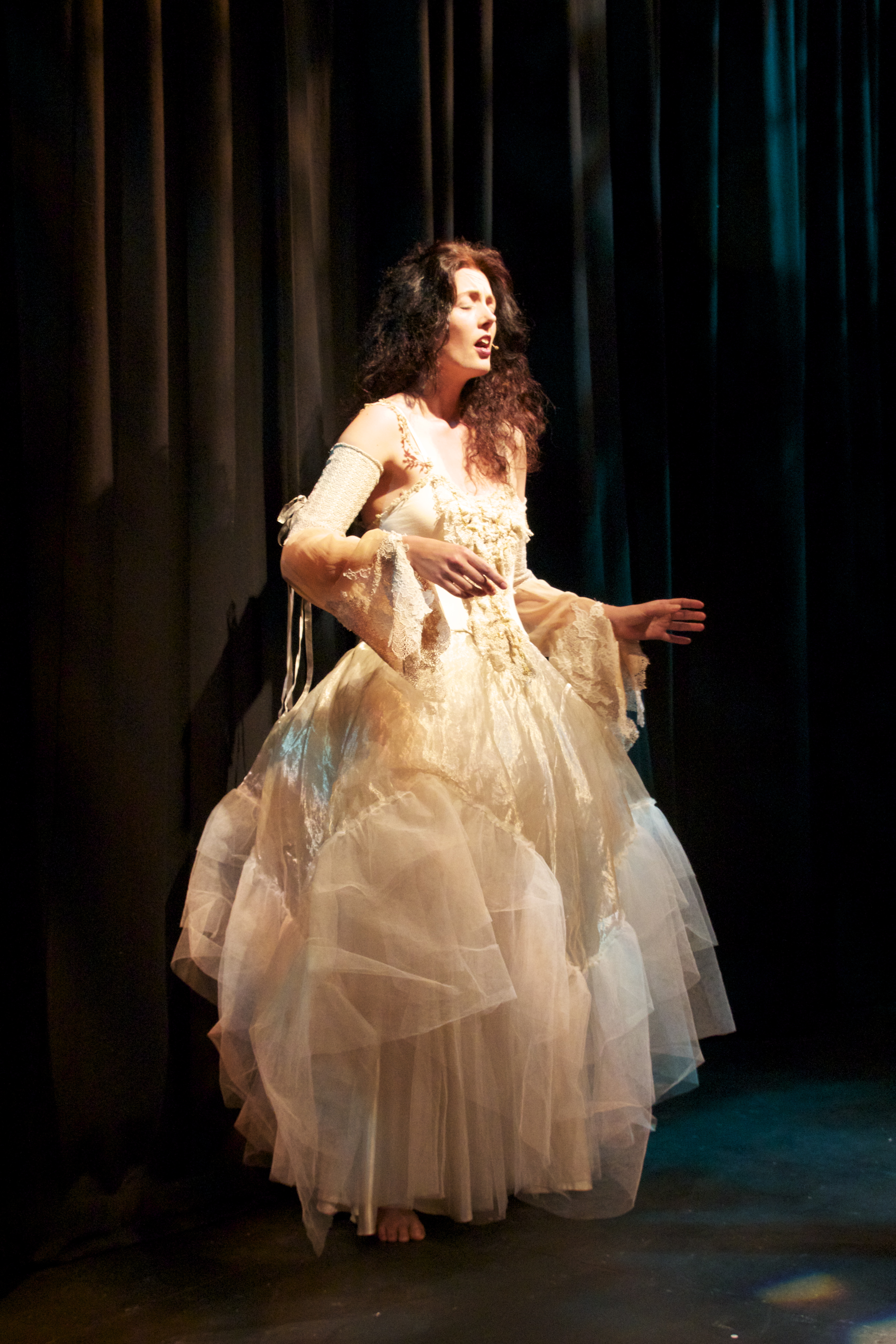 This is a photograph of Irish singer Caitríona O'Leary in performance with her traditional Irish band Dúlra. The performance was a part of the Ecstasy Tour in 2010. The photograph was taken by Tara Slye at the Mermaid Arts Centre in Bray, Ireland.